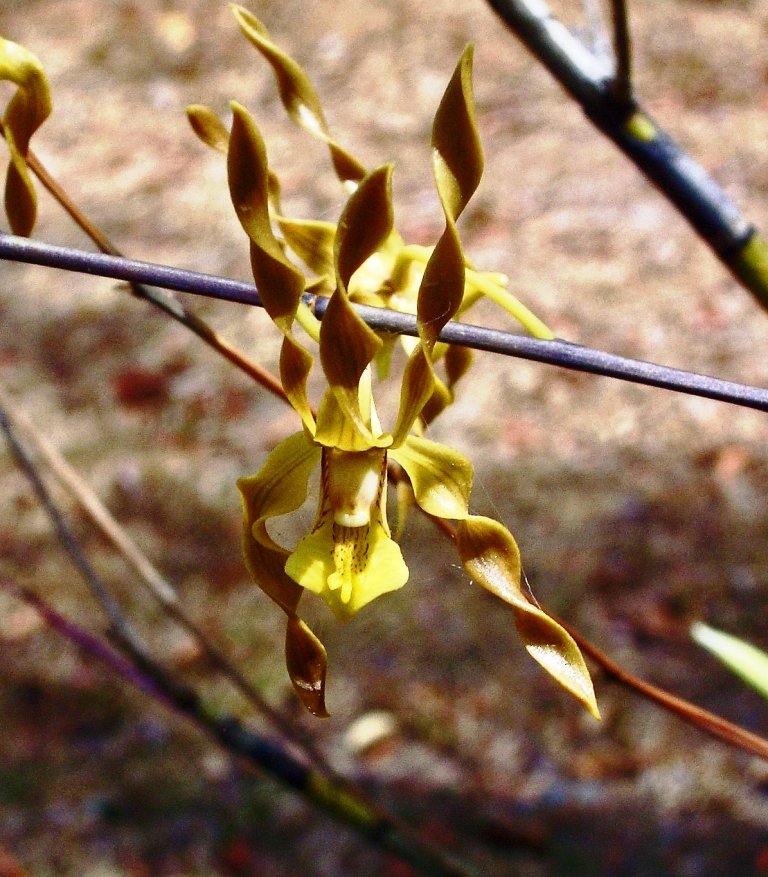 I took this photo myself in my back yard